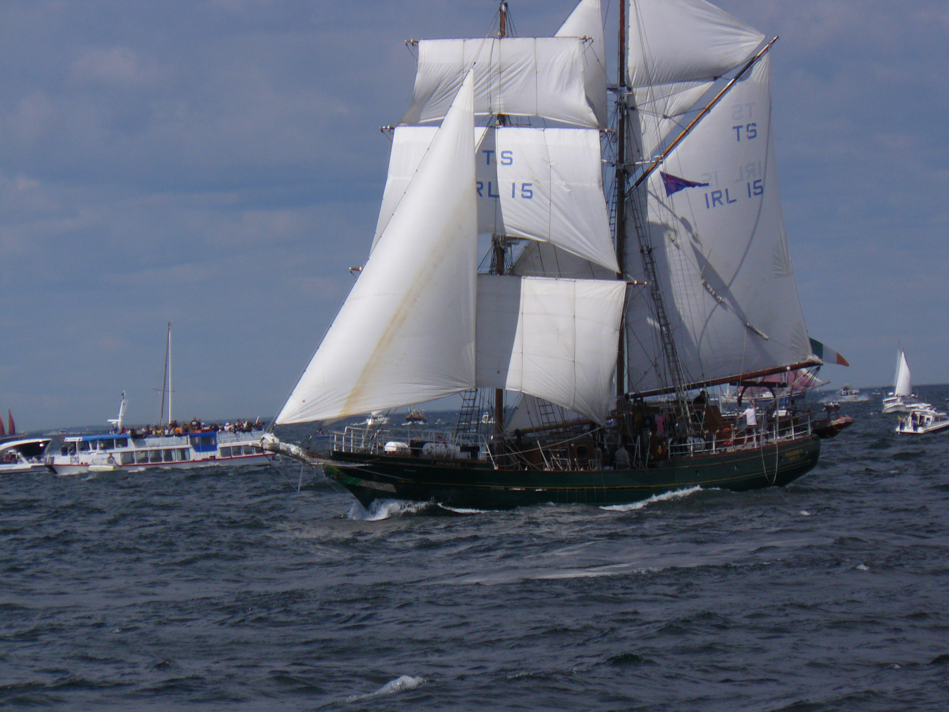 Asgard II